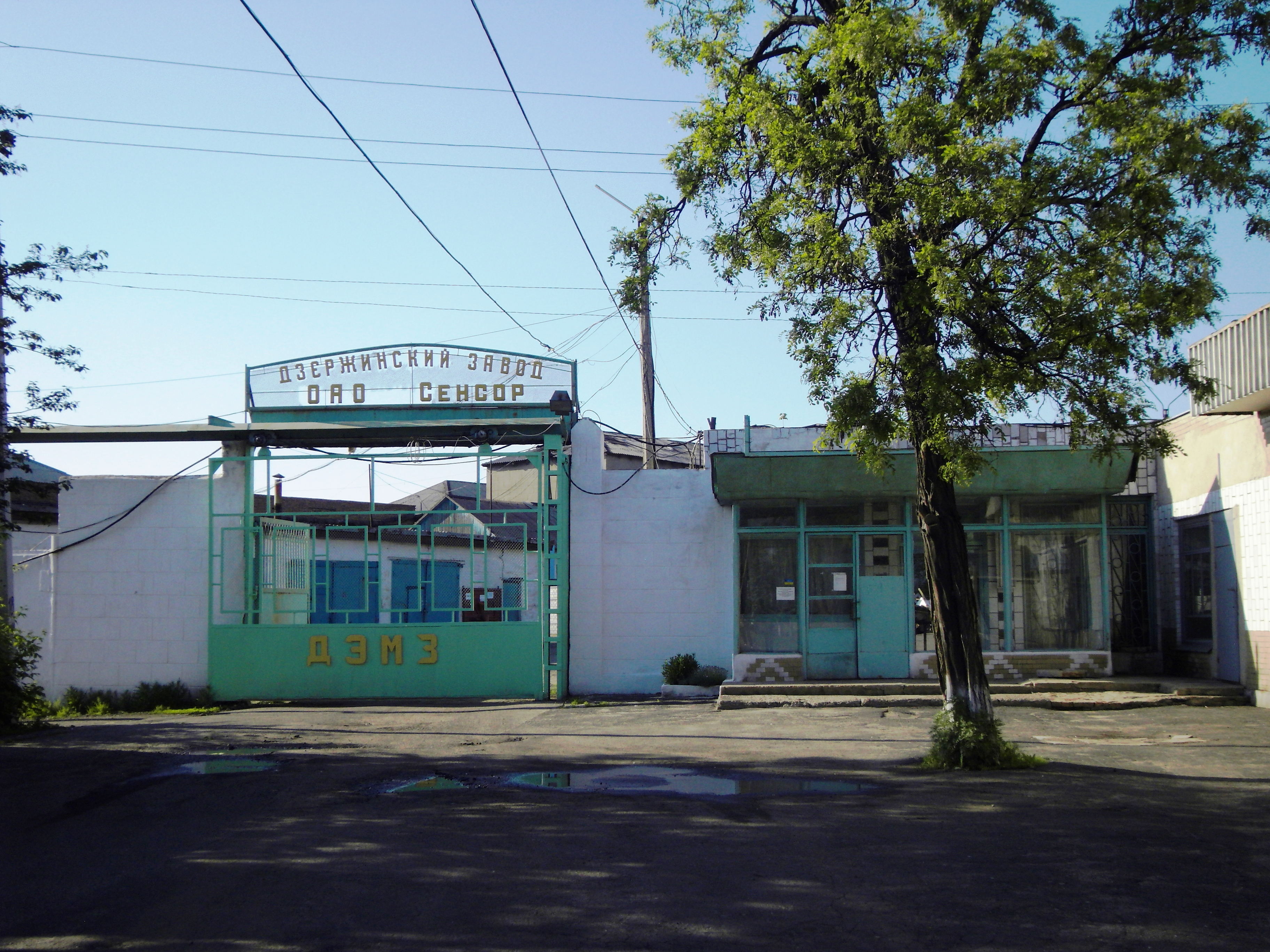 Plant "Sensor", Dzerzhynsk